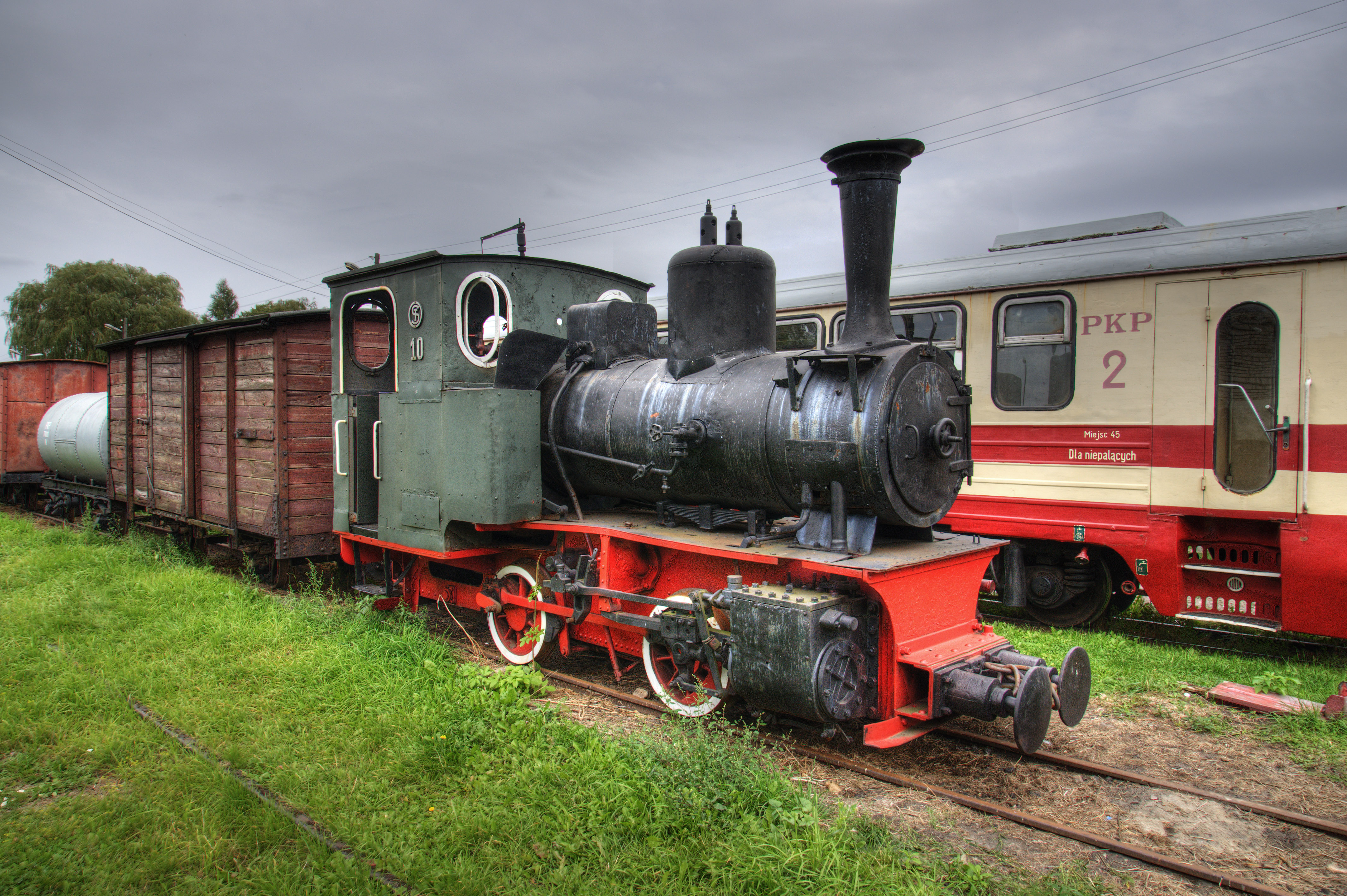 Rogów railway museum